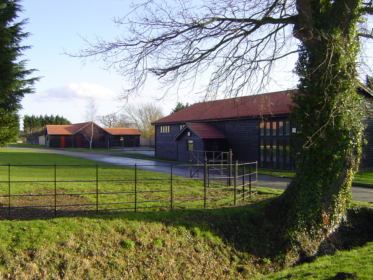 Business units at Newhall Farm, Stanningfield, Suffolk. The units are on the edge of Lawshall.